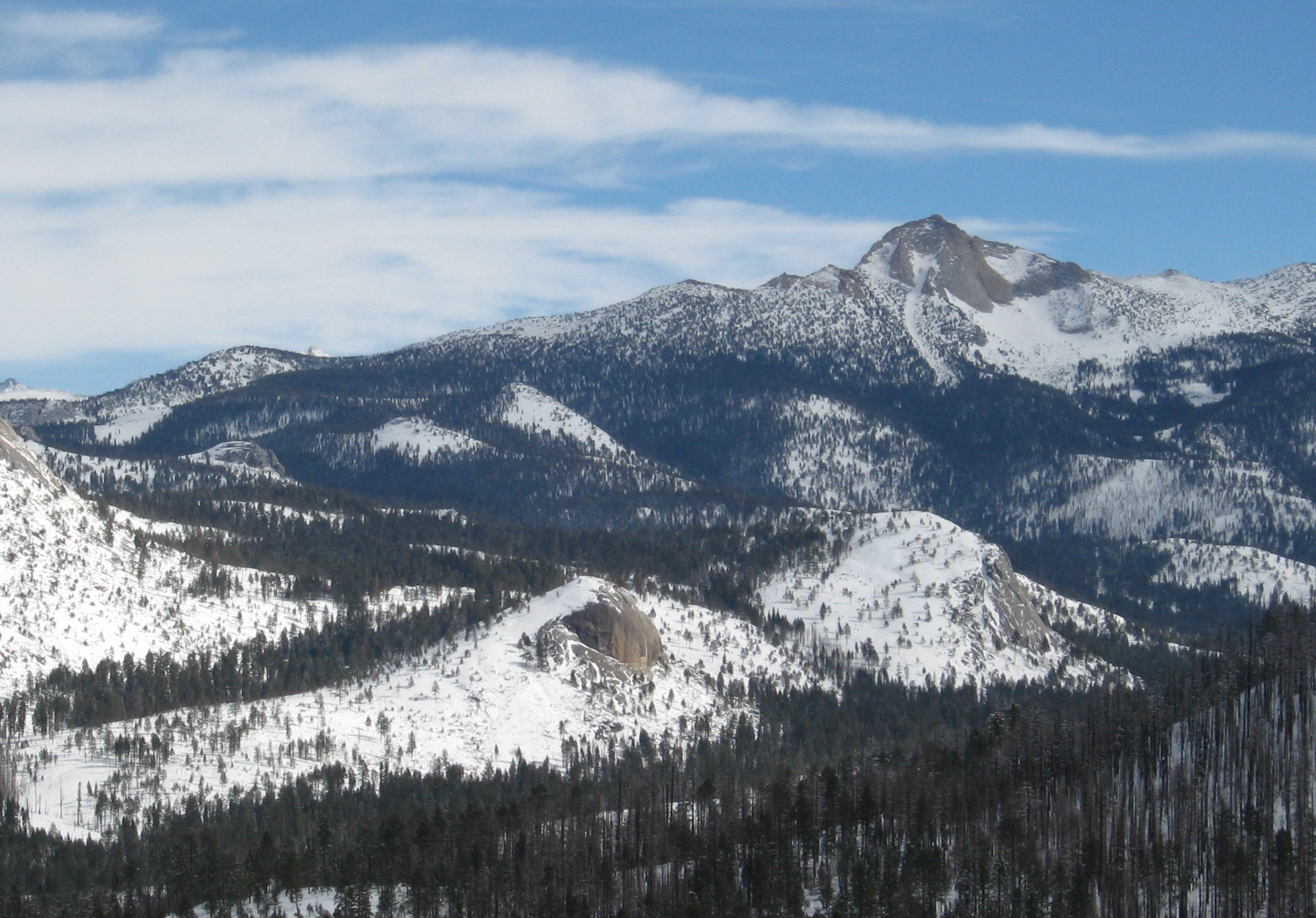 West face of Mount Clark. Taken from Clark Range View on Glacier Point Road, Yosemite National Park, California, USA. Sierra Nevada mountain range.